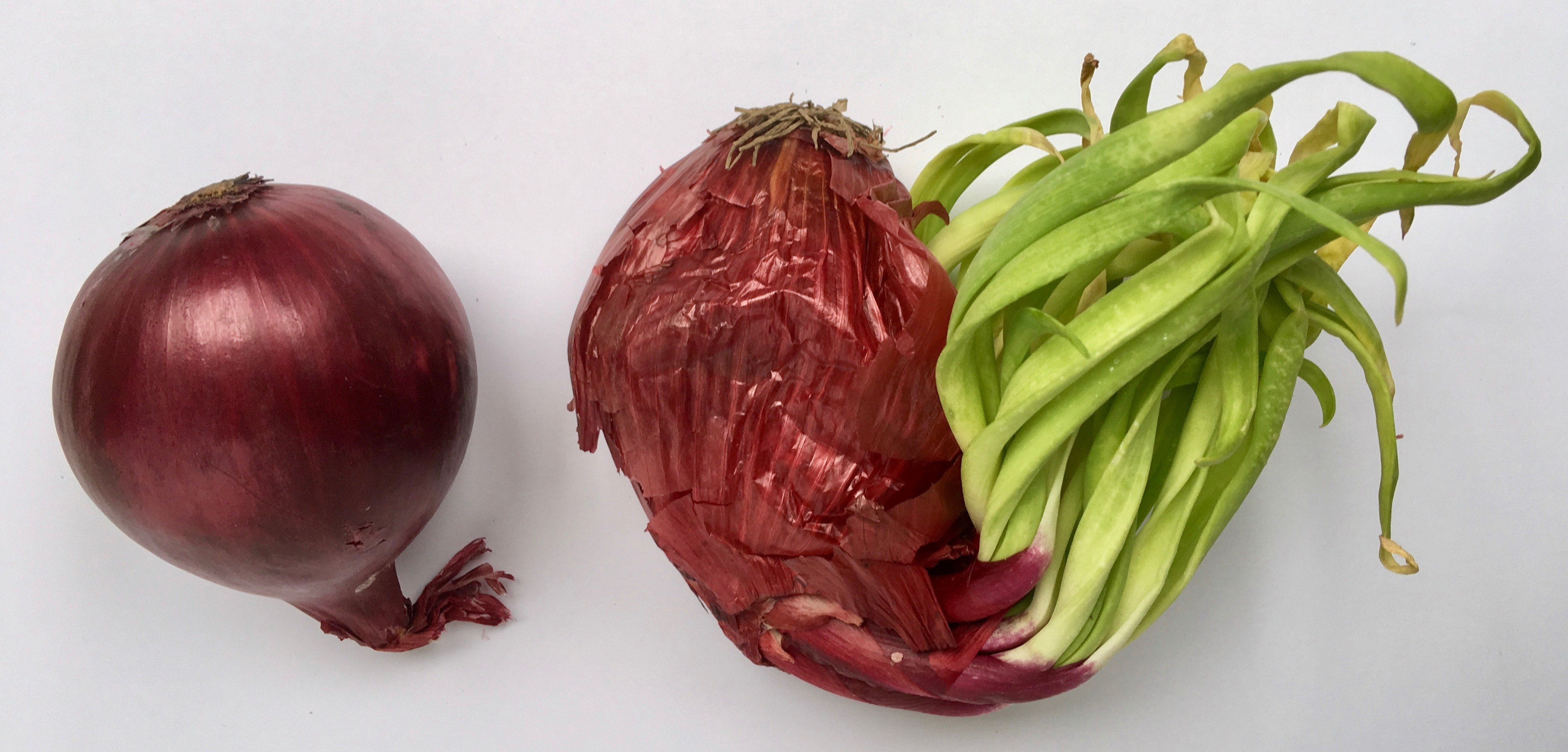 Red onion bulbs, one normal and the other soft and sprouting after being stored in light. Norway, September 2017.